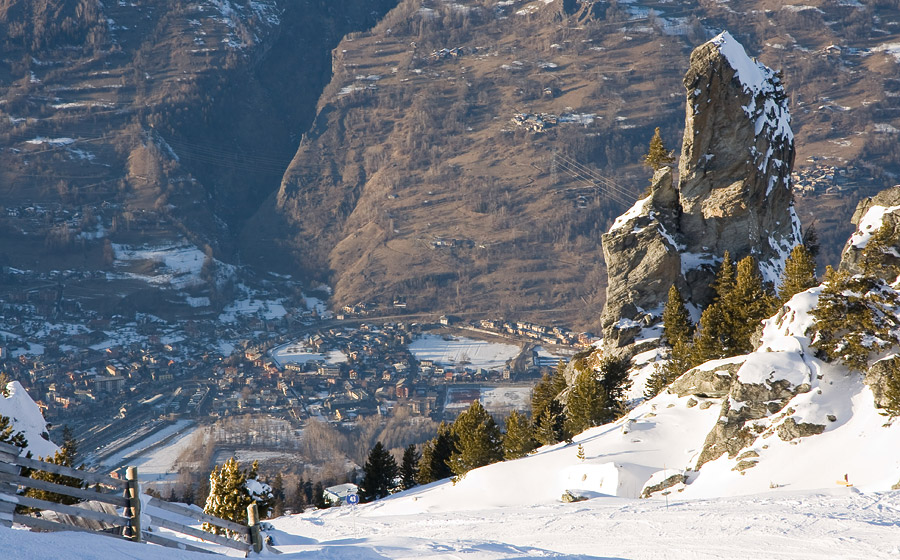 Bourg-St-Maurice view from Les Arcs ski resort